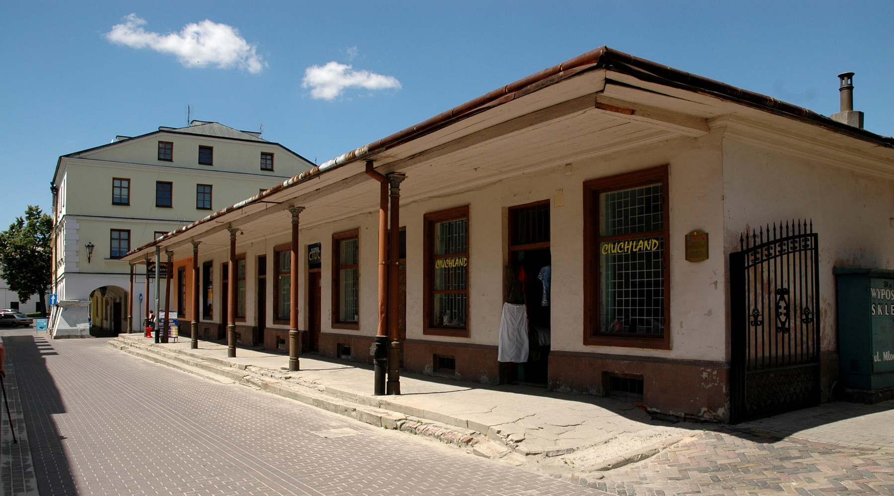 Former jewish buthers' stalls in Zamość